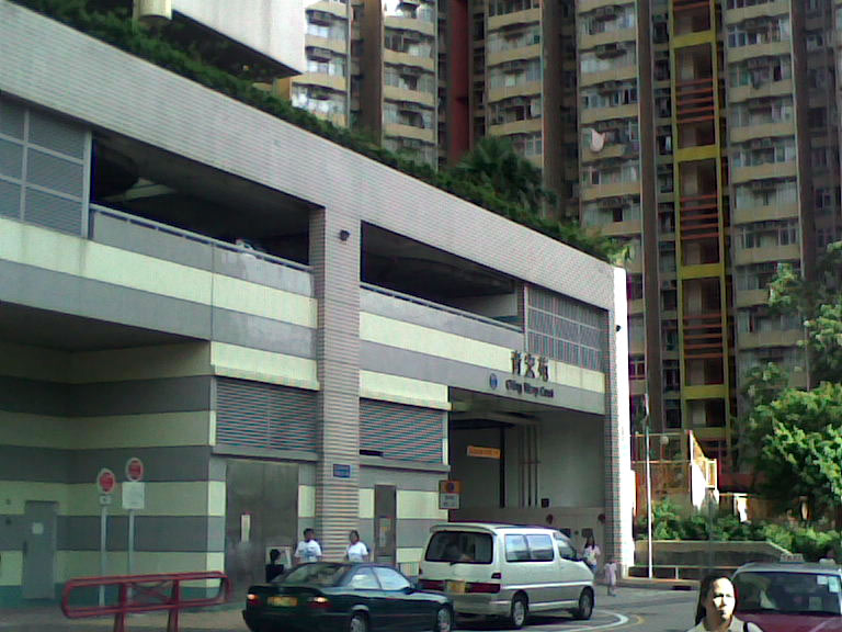 Car Park Entrance of Ching Wang Court. 中文（香港）: 青宏苑停車場入口。